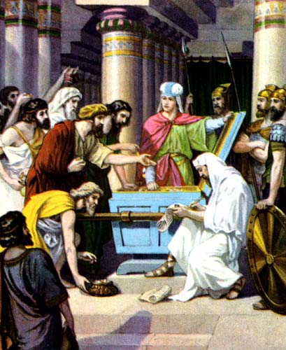 A King and His People Caring for God's House, illustration from a Bible card published between 1896 and 1913 by the Providence Lithograph Company